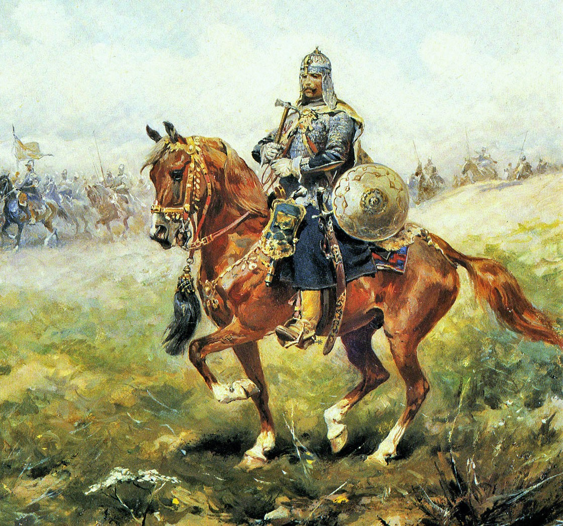 "Towarzysz pancerny" - Medium Polish-Lithuanian Commonwealth cavalrymen. Oil on canvas by Józef Brandt.